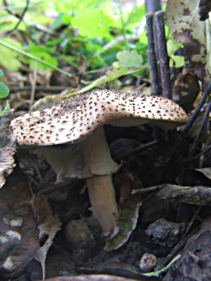 Lepiota aspera (L. acutesquamosa) in my garden